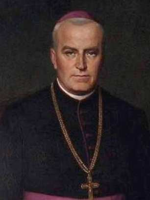 Istvan Fiedler 1871-1957 Bishop of Oradea Mare and Satu Mare 1930-1939